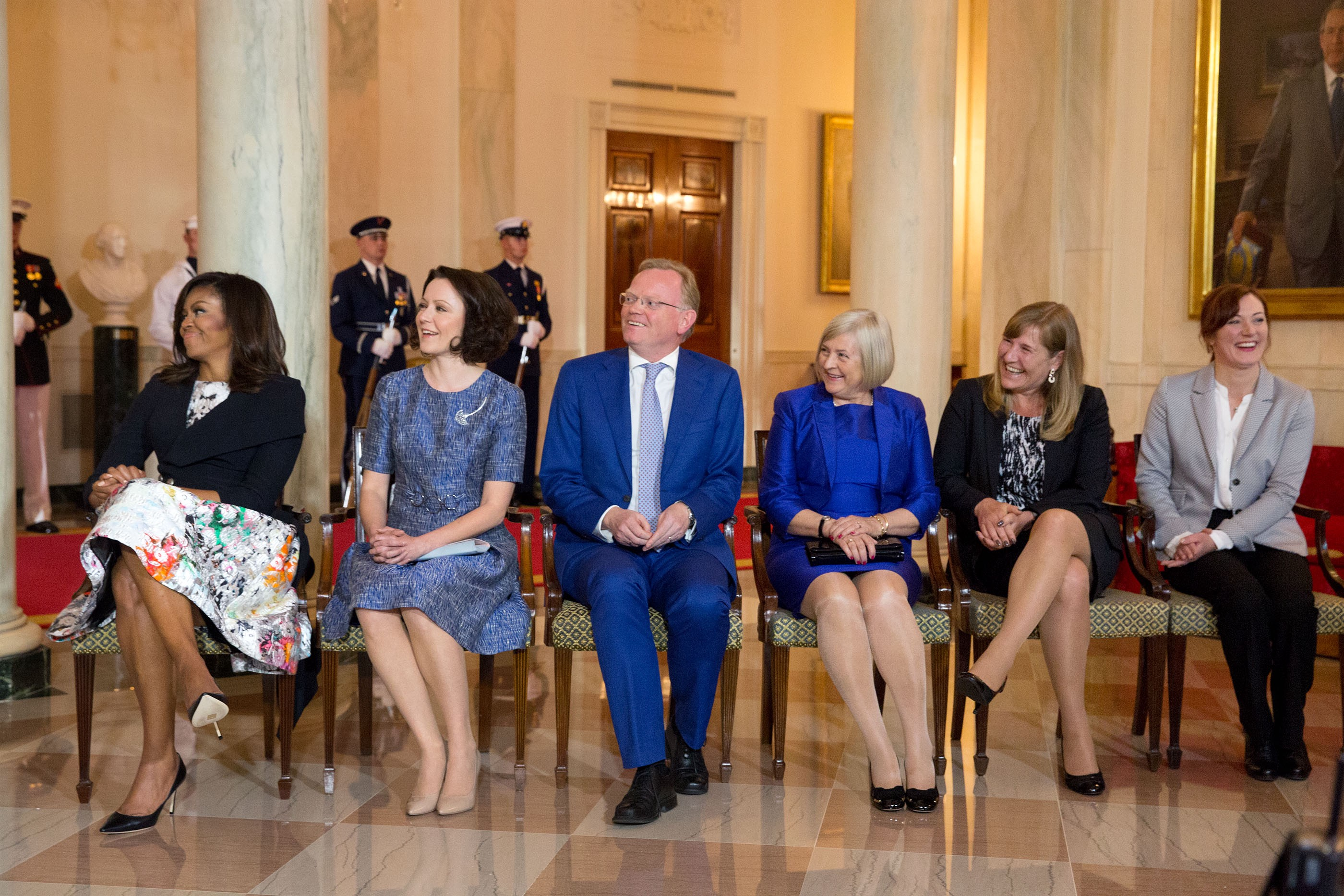 Mrs. Obama and Nordic leaders’ spouses react to President Obama’s remarks. (Official White House Photo by Amanda Lucidon)